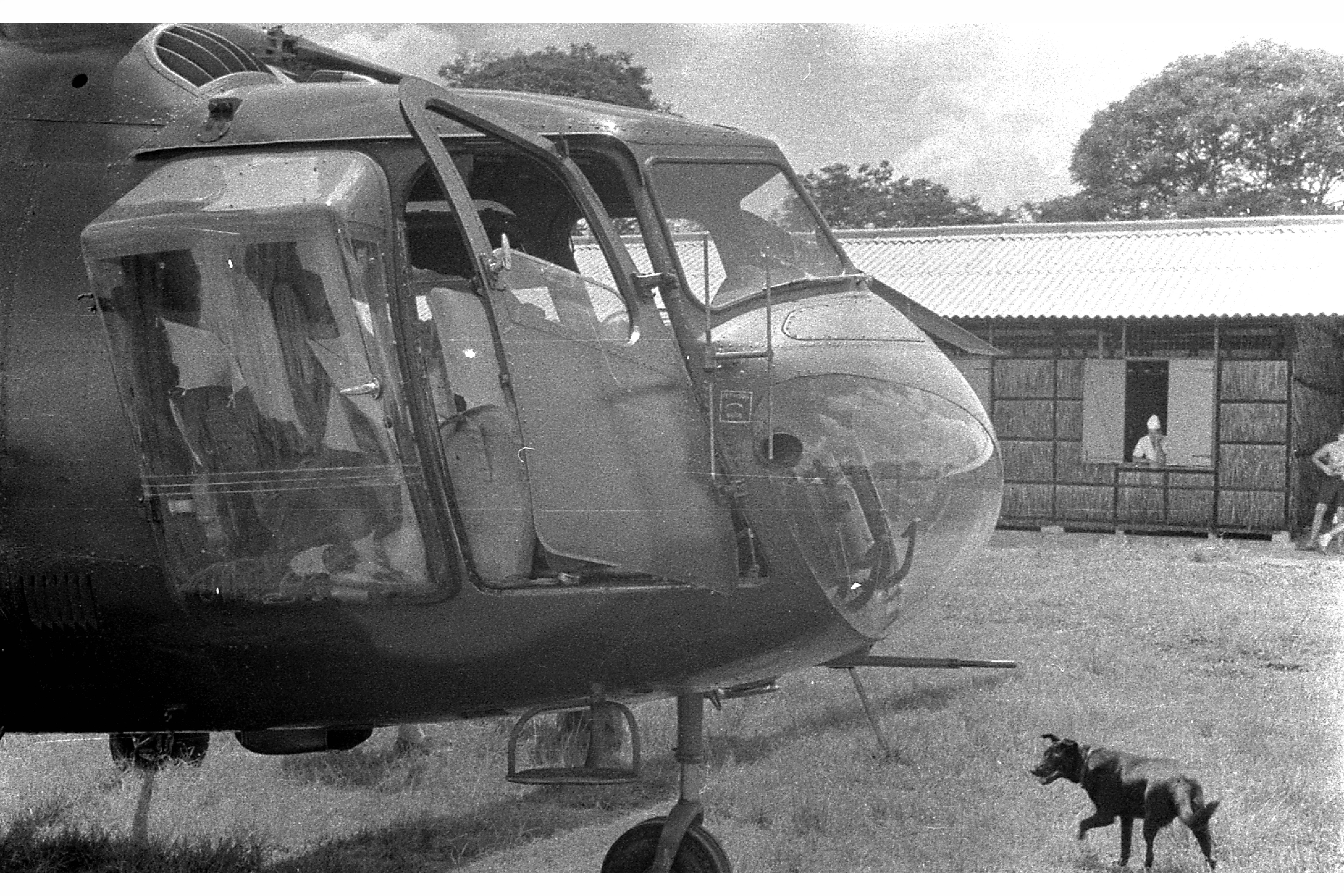 A Bristol Sycamore Helicopter, as photographed by Paul Hadfield during his time in the HM Forces.